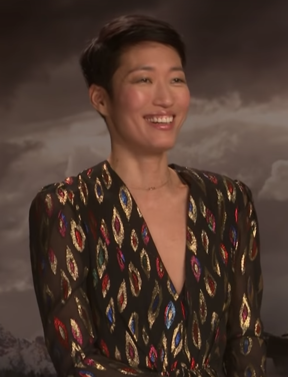 South Korean singer and actress Jihae during promotions for the movie Mortal Engines (2018).